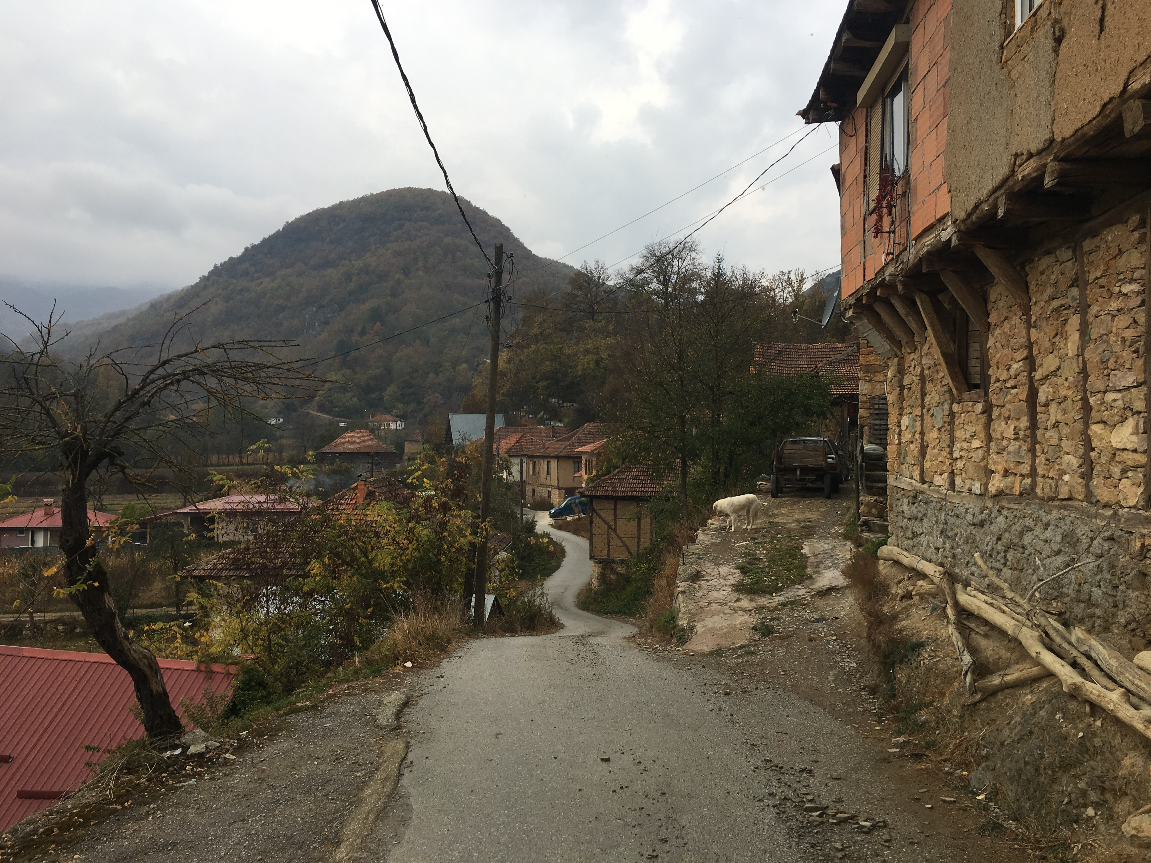 Wikiexpedition to Kopačka